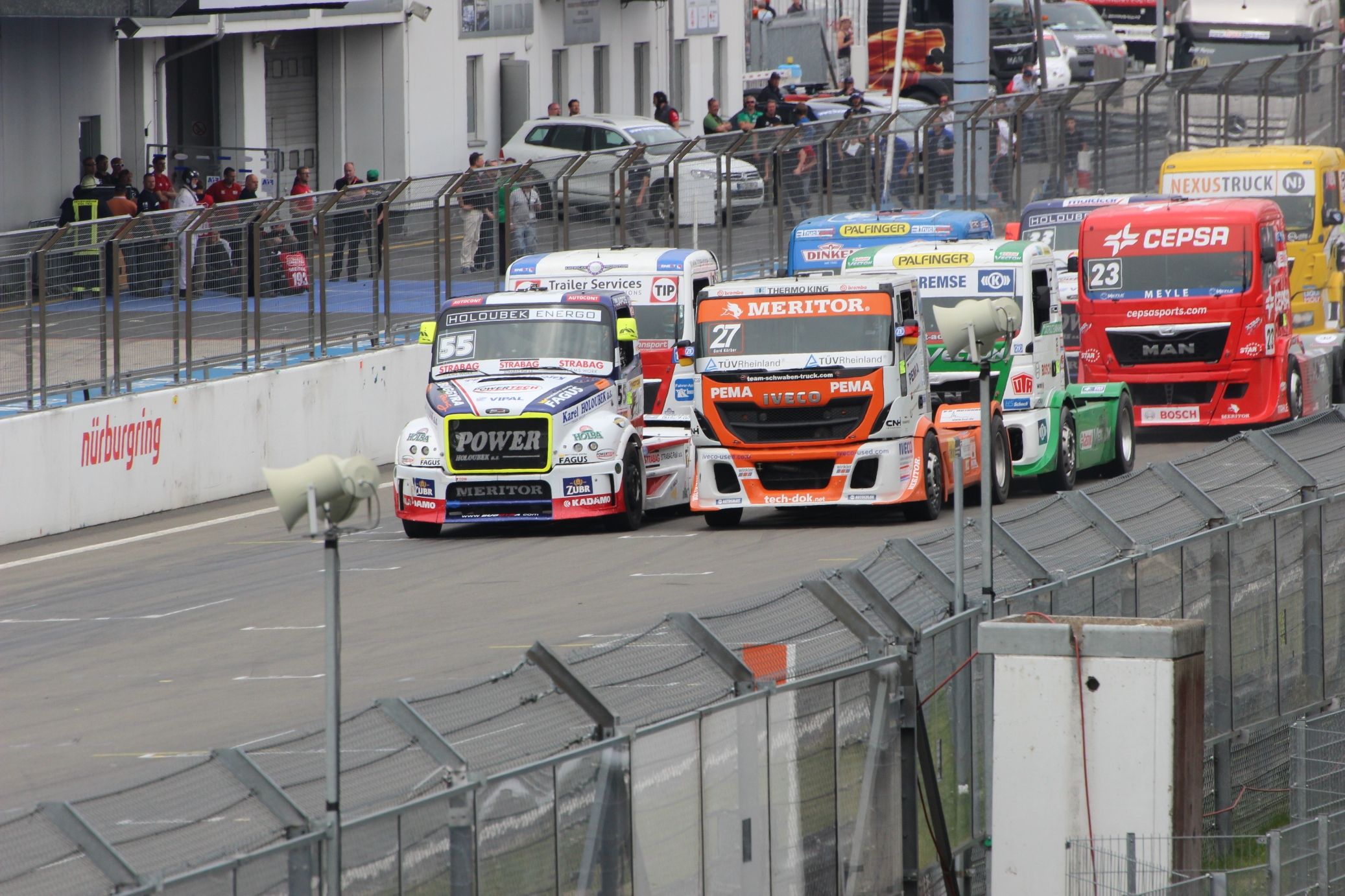 European Truck Racing Championship 2015 (Nürburgring)